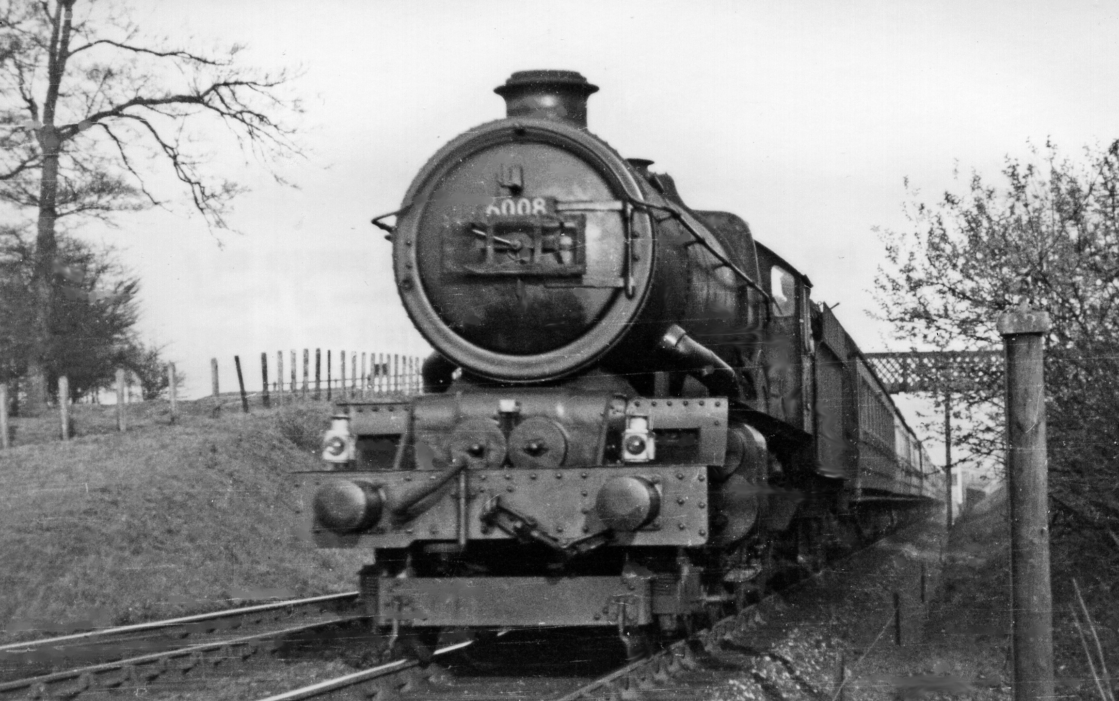 Paddington - Birkenhead express west of Seer Green. View eastward, towards London; ex-GWR Paddington - Birmingham Direct line (via Bicester), on the stretch (Neasden Junction - High Wycombe - Princes Risborough - Ashendon Junction) Joint with ex-GC Marylebone - Leicester - Sheffield main line. The locomotive of the 16.10 from Paddington (due Birkenhead Woodside at 22.00) is 4-6-0 No. 6008 'King James II' (built 3/28, withdrawn 6/62).